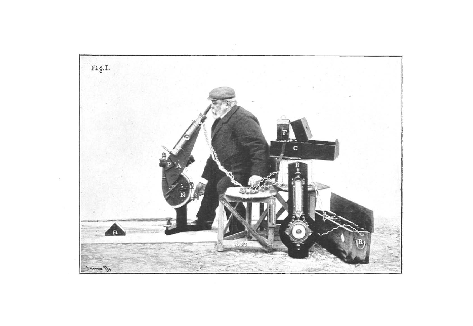 Reflection sextant variant developed by Manuel Nuñez de Villavicencio y Olaguer Feliú, Count of Cañete del Pinar.